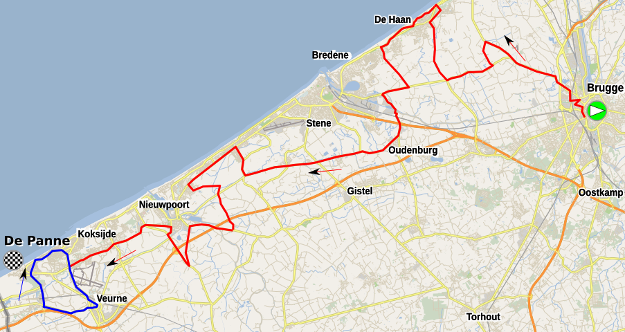 Map of Brugge-De Panne 2019, women.